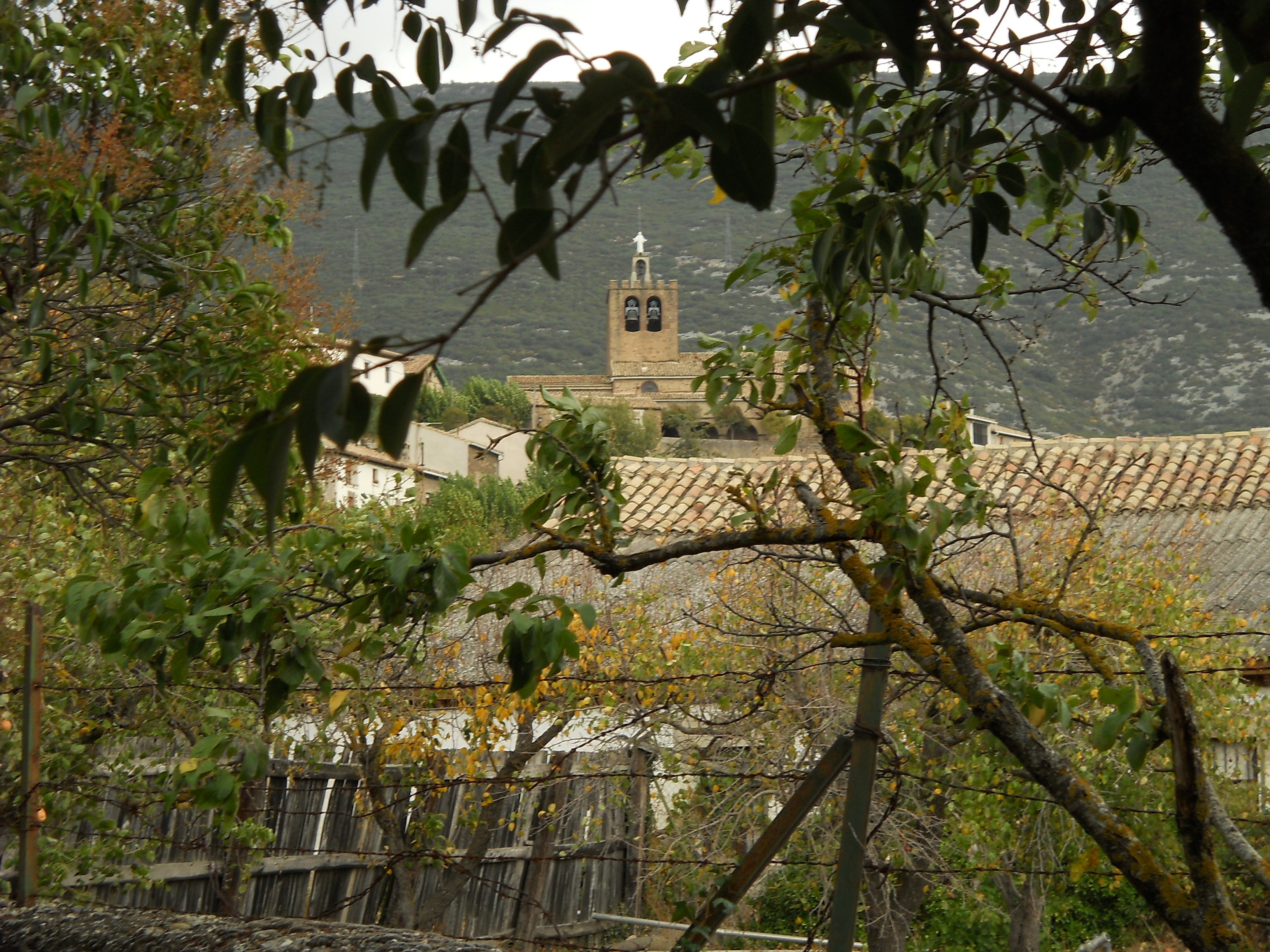 Liédena, Navarre, Spain